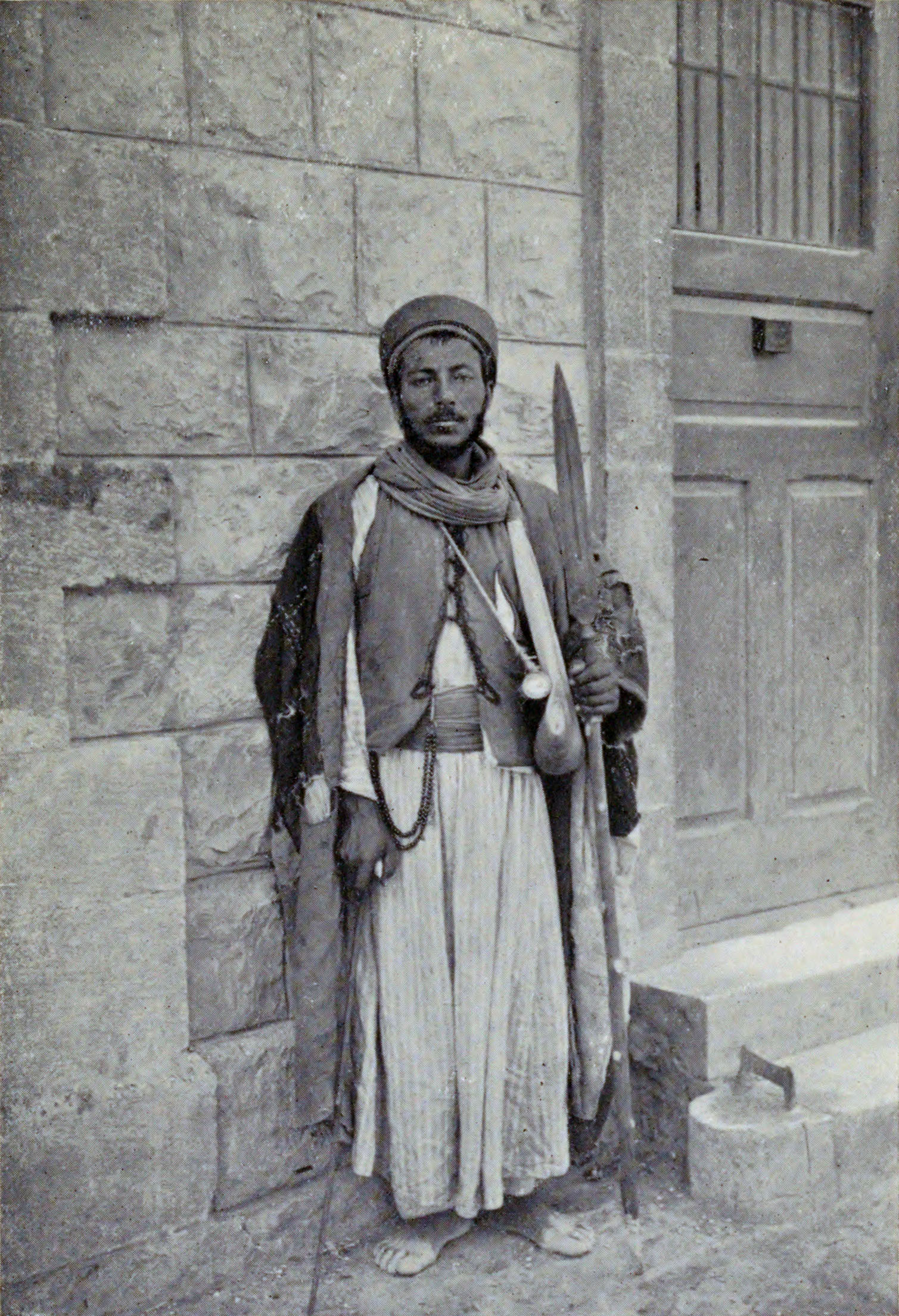 Black and white photograph of barefoot, bearded person wearing robes, a scarf, and a vest, and looking at the camera with a neutral expression, standing against a stone building and holding a spear upright with one hand.